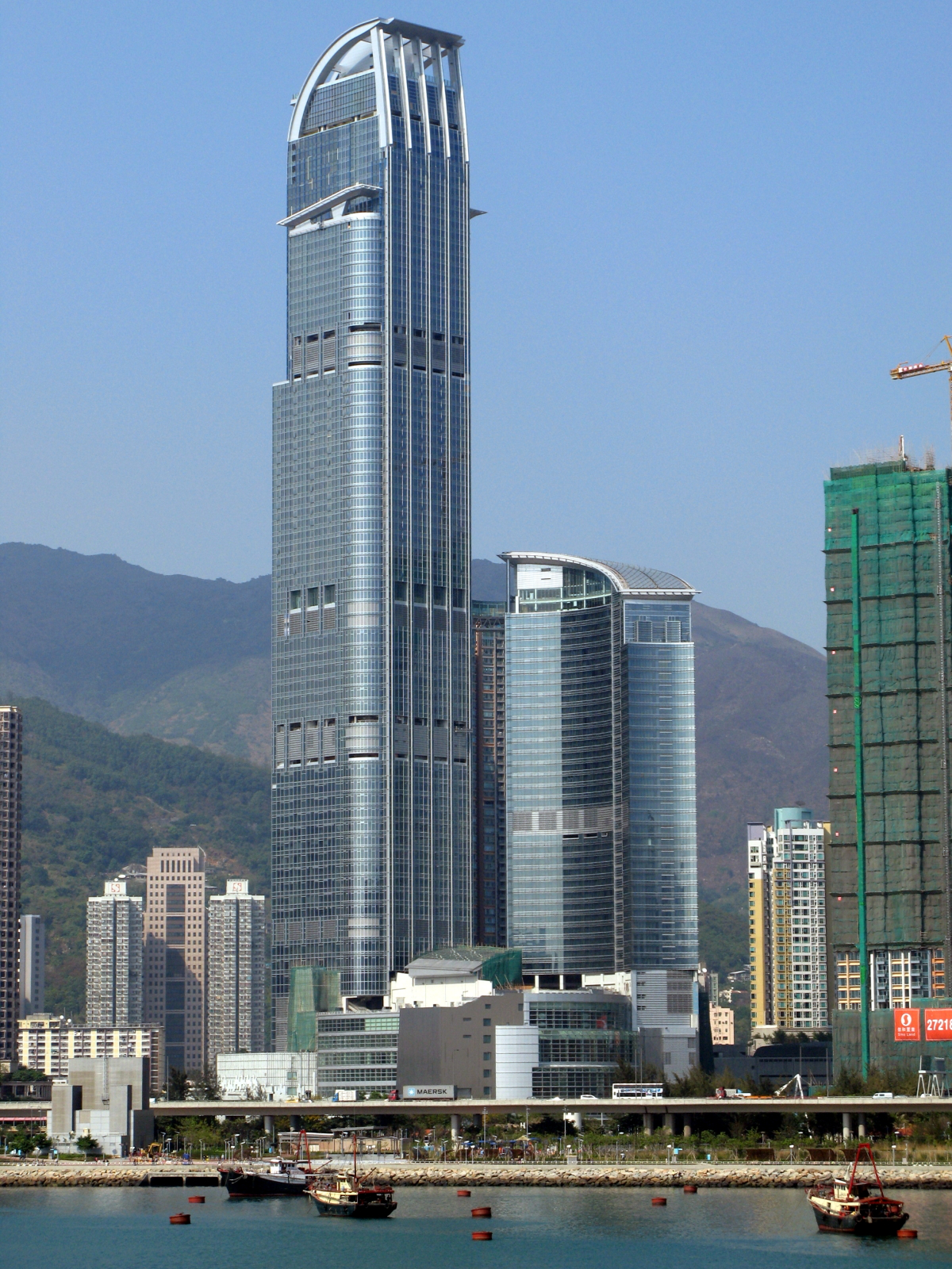 HK Nina Tower 香港 如心廣場